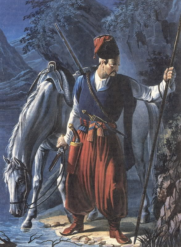 Zaporizhian Cossack, 18 century.